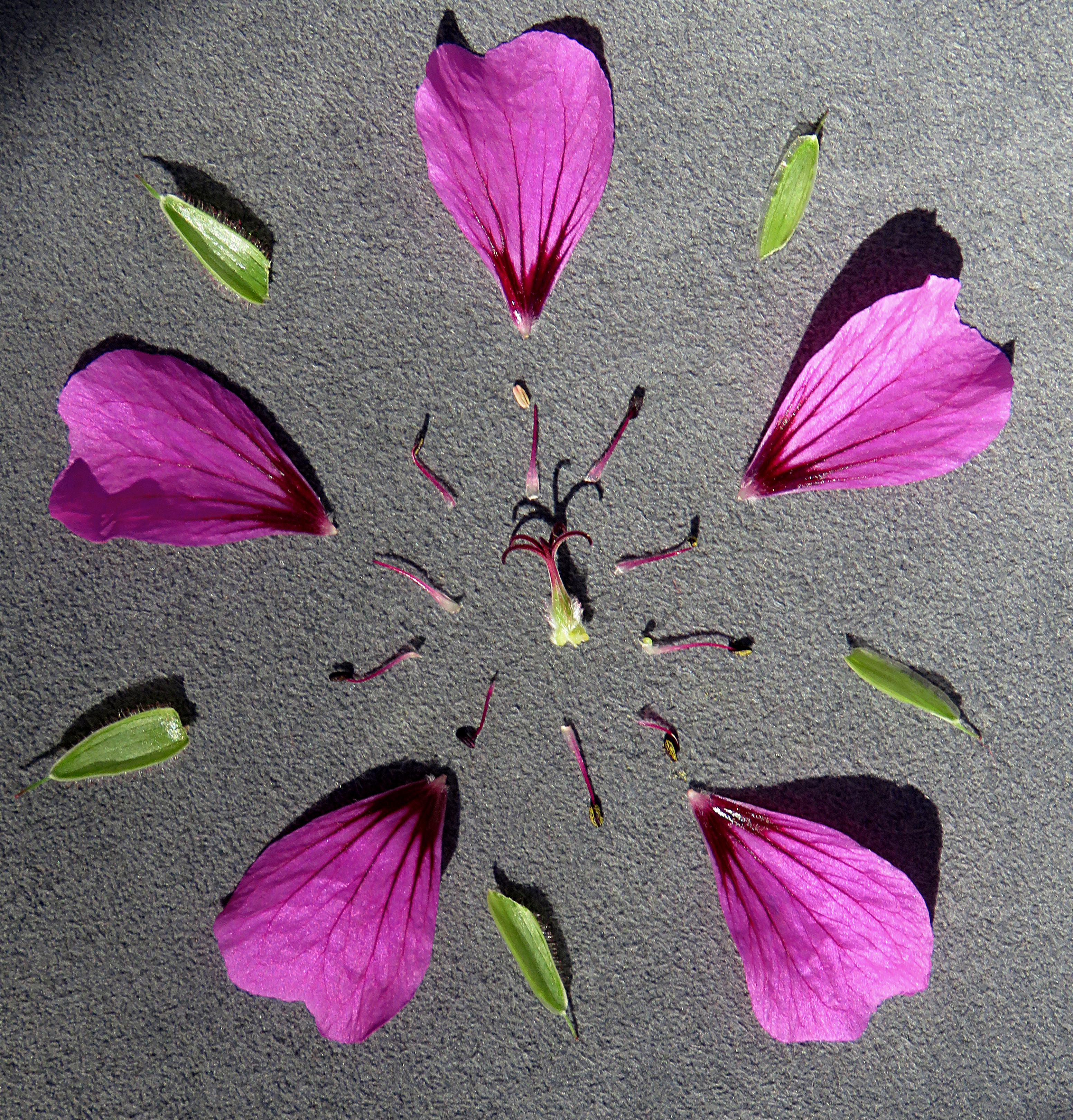 floral diagram of Geranium 'Anne Thomson', by Ronald Flipphi